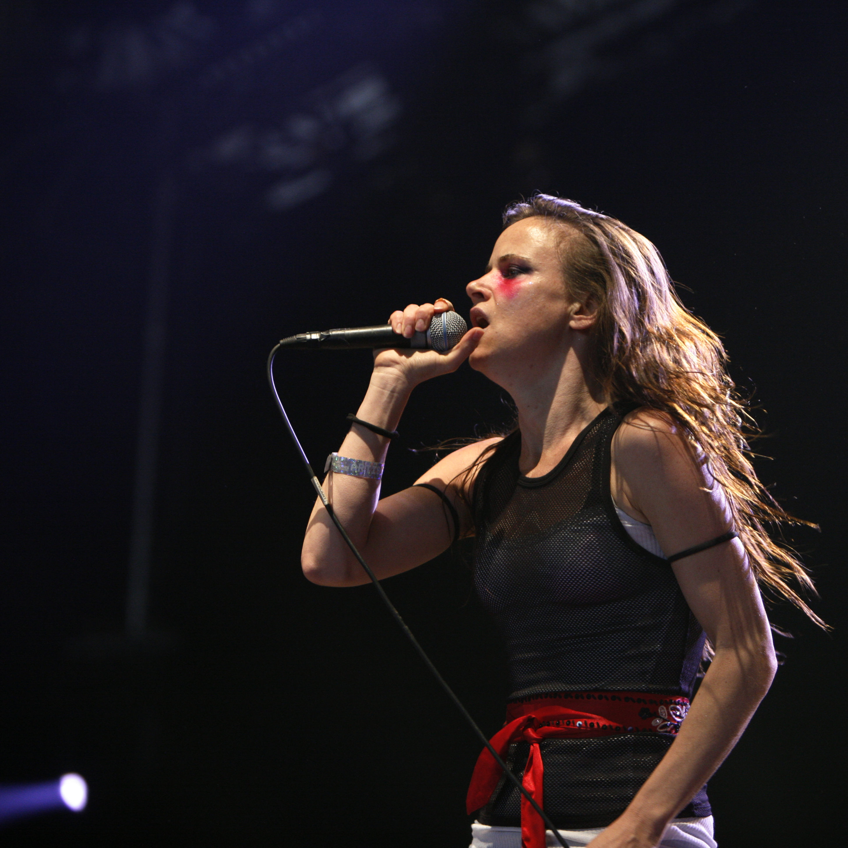 Juliette Lewis from Juliette and the Licks at the Eurockéennes of 2007.